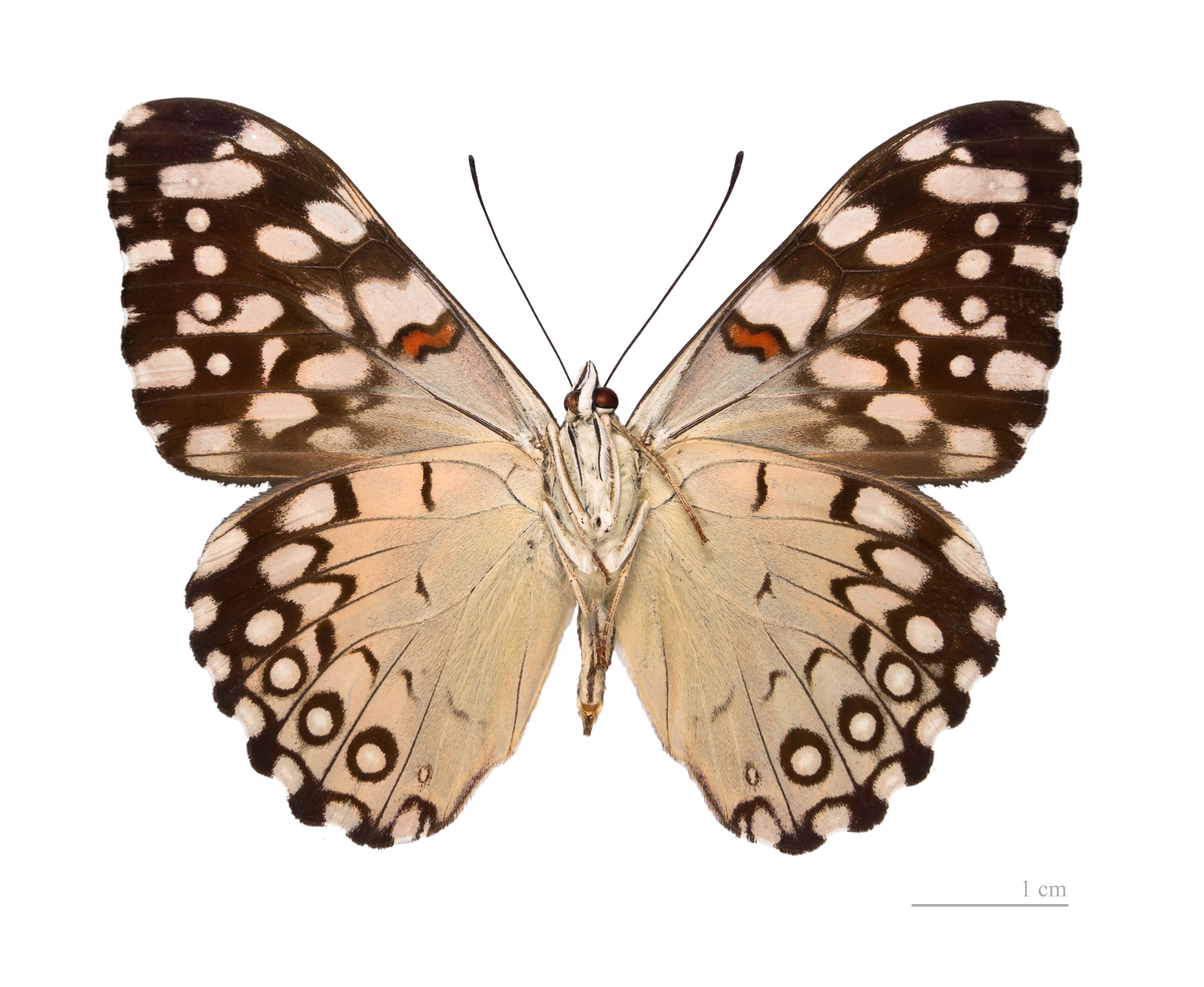 ♂ - △ Ventral side Locality : Kaw road, departing runway Fourgassié, French Guiana.